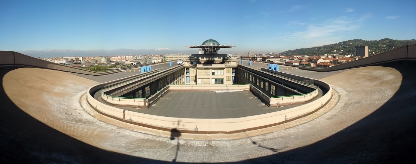 Fiat Lingotto. Torino. Italy